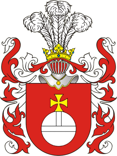 Herb Swiat Clan This image was uploaded in the JPEG format even though it consists of non-photographic data. This information could be stored more efficiently or accurately in the PNG or SVG format. If possible, please upload a PNG or SVG version of this image without compression artifacts, derived from a non-JPEG source (or with existing artifacts removed). After doing so, please tag the JPEG version with Superseded|NewImage.ext and remove this tag. This tag should not be applied to photographs or scans. For more information, see BadJPEG .